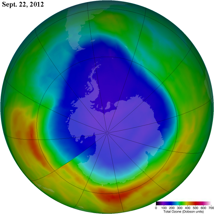 Antarctic Ozone Hole as at Sept. 22, 2012